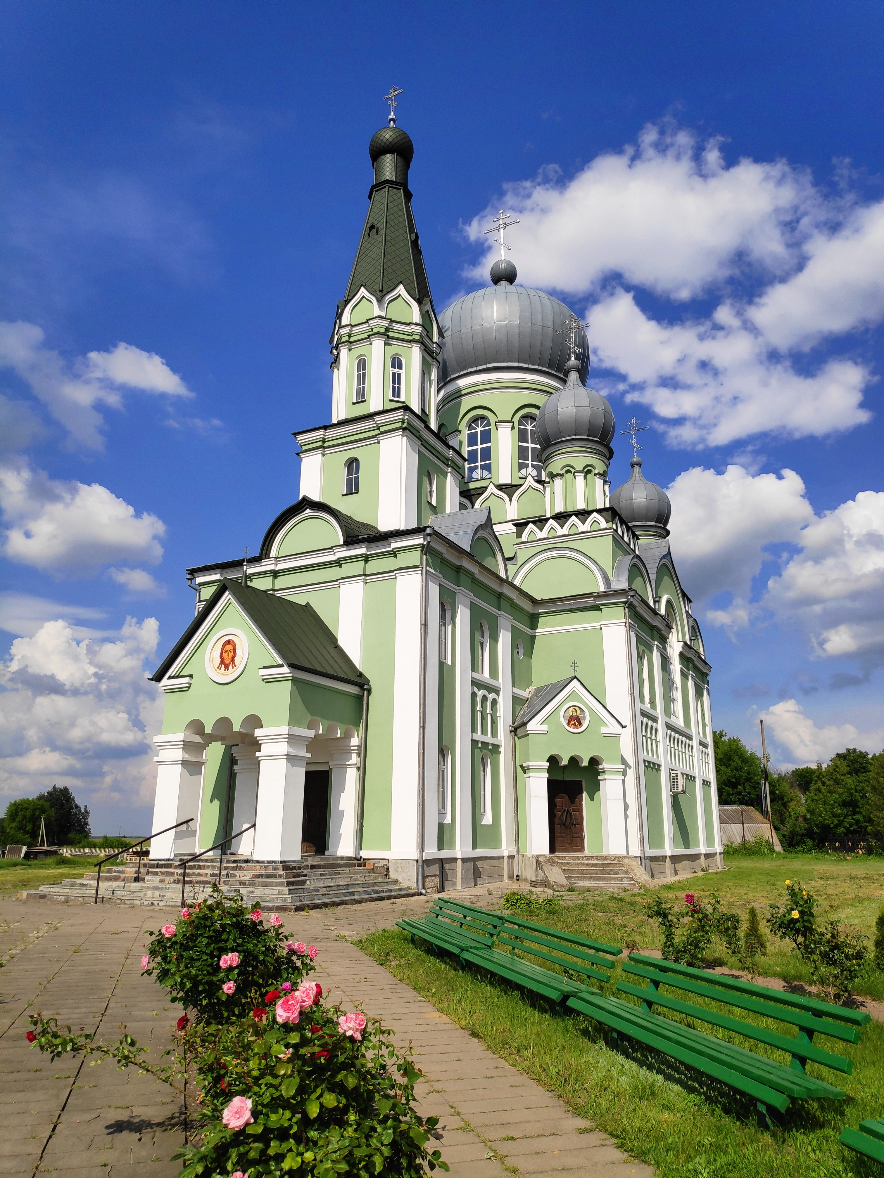 Was built in 1991-1996 instead of St. Elijah church that was destroyed in the 1970s during soviet authority